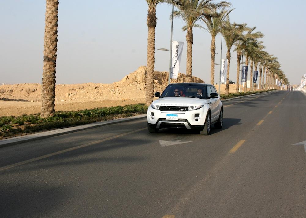 Official Jaguar Land Rover importer for the GCC MTI Automotive in Egypt and prominent real estate agents Emaar recently invited customers and marque fans to the exclusive Cars & Cigars family day event.